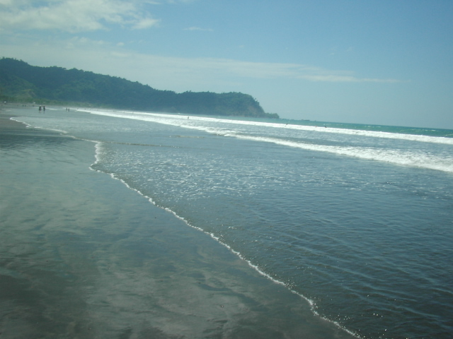 I took the picture myself on 11 March 2007.